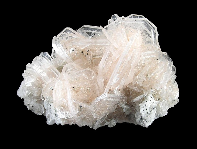 Apophyllite Locality: Fengjiashan Mine (Daye Copper mine), Edong Mining District, Daye County, Huangshi Prefecture, Hubei Province, China (Locality at ) A rare Chinese specimen out of the notable collection of Helen Holmes: GEMMY light pink WINDOWPANE crystals of apophyllite, richly piled up on the matrix! Look how this highly desirable specimen has been trimmed out to display perfectly the rich cluster of crystals. A superb specimen. The best of these came out around 1998 and their equals have not turned up since. 7.6 x 6.5 x 5.1 cm